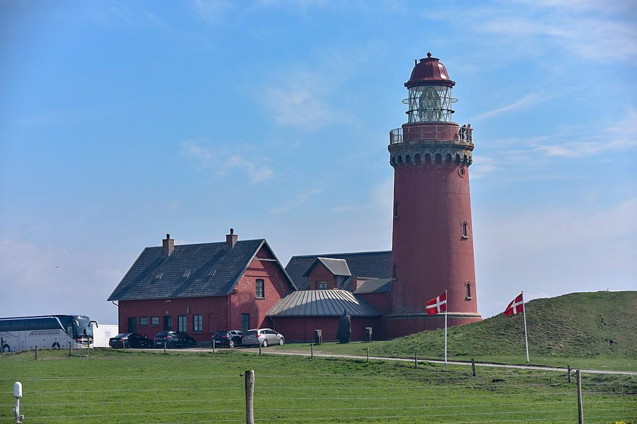 Bovbjerg Fyr lighthouse in April